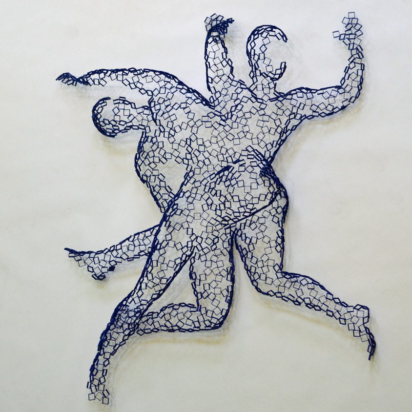 Photo of a Rainer Lagemann statue taken by Rainer Lagemann